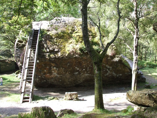 Bowder Stone - from the east. A view of the Bowder Stone taken from a slightly elevated position to the east. For information on this remarkable stone see 546801